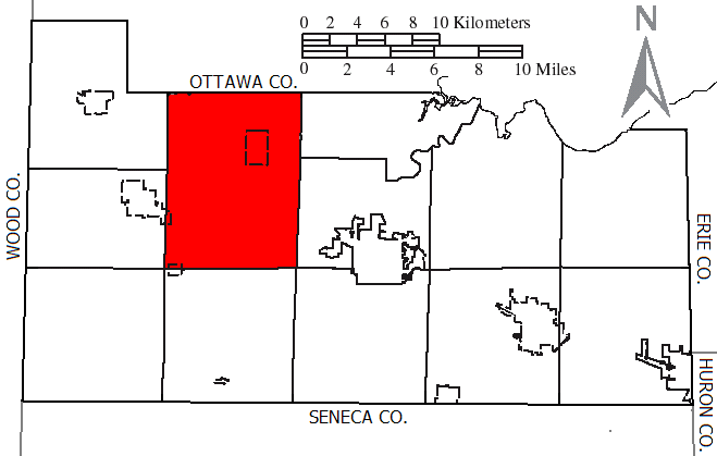 Made by the US Census and modified by User:Frank12